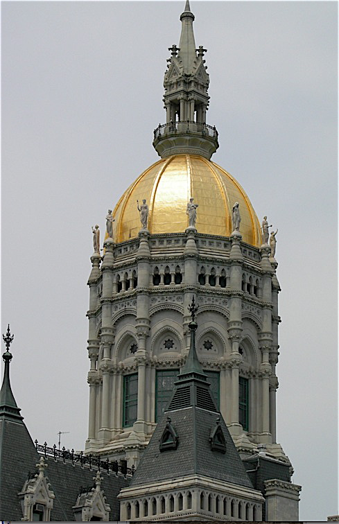 Connecticut State Capitol Building, Hartford, CT. Taken in 2007. Personal Photograph. Image has been sharpened.